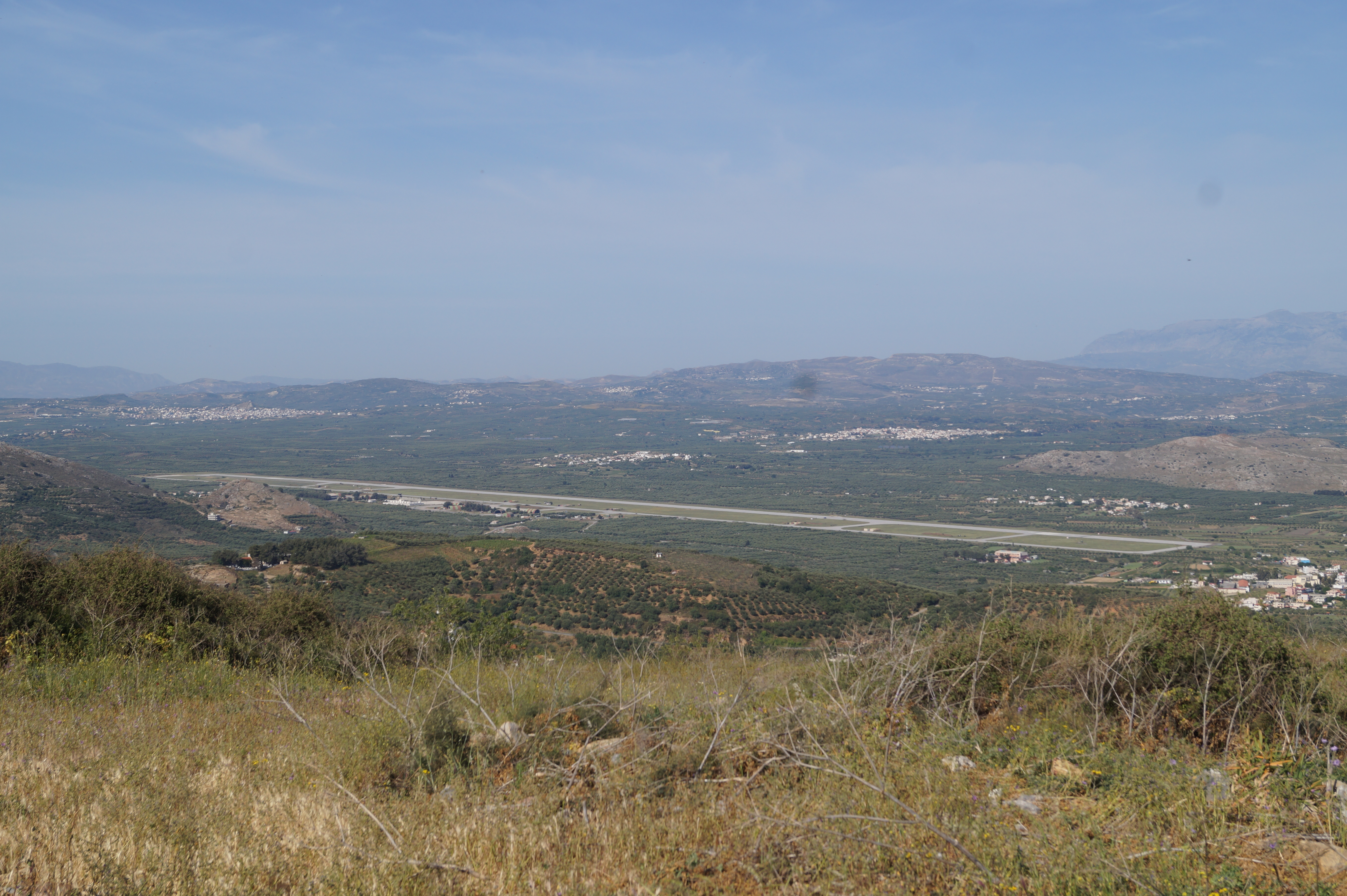 Kasteli Airport, Crete, Greece: View from the archaeological site of Lyctus.